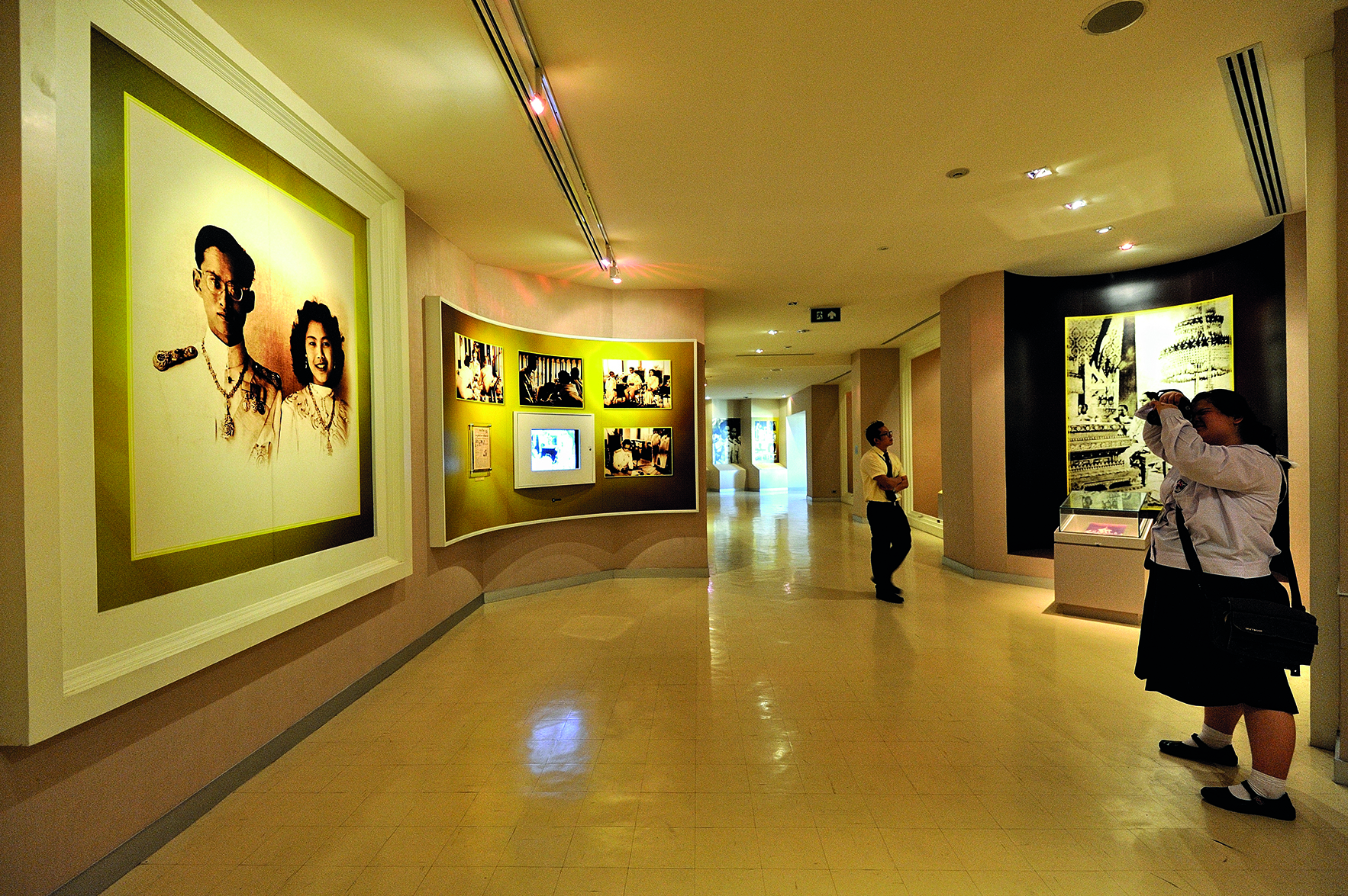 The Golden Jubilee Museum of Agriculture located on an area of 500 rai was founded by the Ministry of Agriculture and Cooperatives on the occasion of King Bhumibol Adulyadej's golden jubilee celebrations in 1996 to be a centre for education about development of traditional Thai Agriculture and modern agricultural technology so as to publicise agriculture-related activities, benevolence, and talent of His Majesty the King. The museum display an exhibition through a use of Magic version technique and 3- dimensional films, covering all aspects, e.g. forestry, fishery, and animal husbandry; plots of rice demonstration fields; a training centre; and a source for education on the royal projects royal projects under interesting themes –“The King Loves Us”, “Amazing Genetics”, “Into the Jungle”, “Water Is Life” etc. The museum provides knowledge which can be translated into practice under the philosophy of sufficiency economy through a joyful learning experience using technologies, models, and simulations. The area outside features demonstrative agricultural plots, rice culture, mushroom cultivation, animal husbandry, vegetable planting in limited space, and production of manure, compost, bioextract, charcoal kiln, charcoal briquettes, wood vinegar), as well as power generation using solar cells. At the front of the buildings is also a market selling safe quality agricultural products from the Golden Jubilee Museum network and the Green Market network.